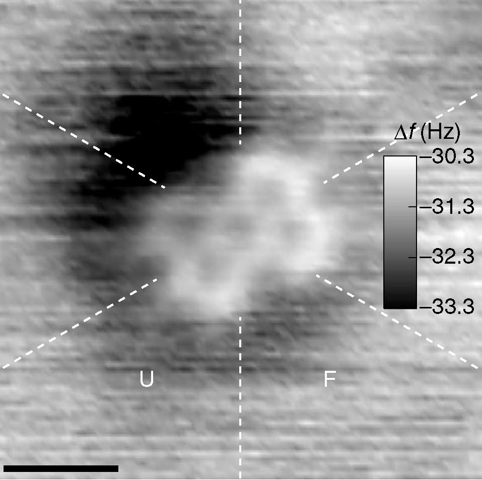 Constant-height AFM image of a single PTCDA molecule adsorbed on the Si(111)-(7 × 7) surface. The acquisition parameters were f0=158,586.6 Hz, k=31.9 N/m, A=138 Å, Vs=Vc.p.d.=130 mV, and Q=22,000. The scan speed was 3 nm s-1. Scale bar, 0.5 nm.